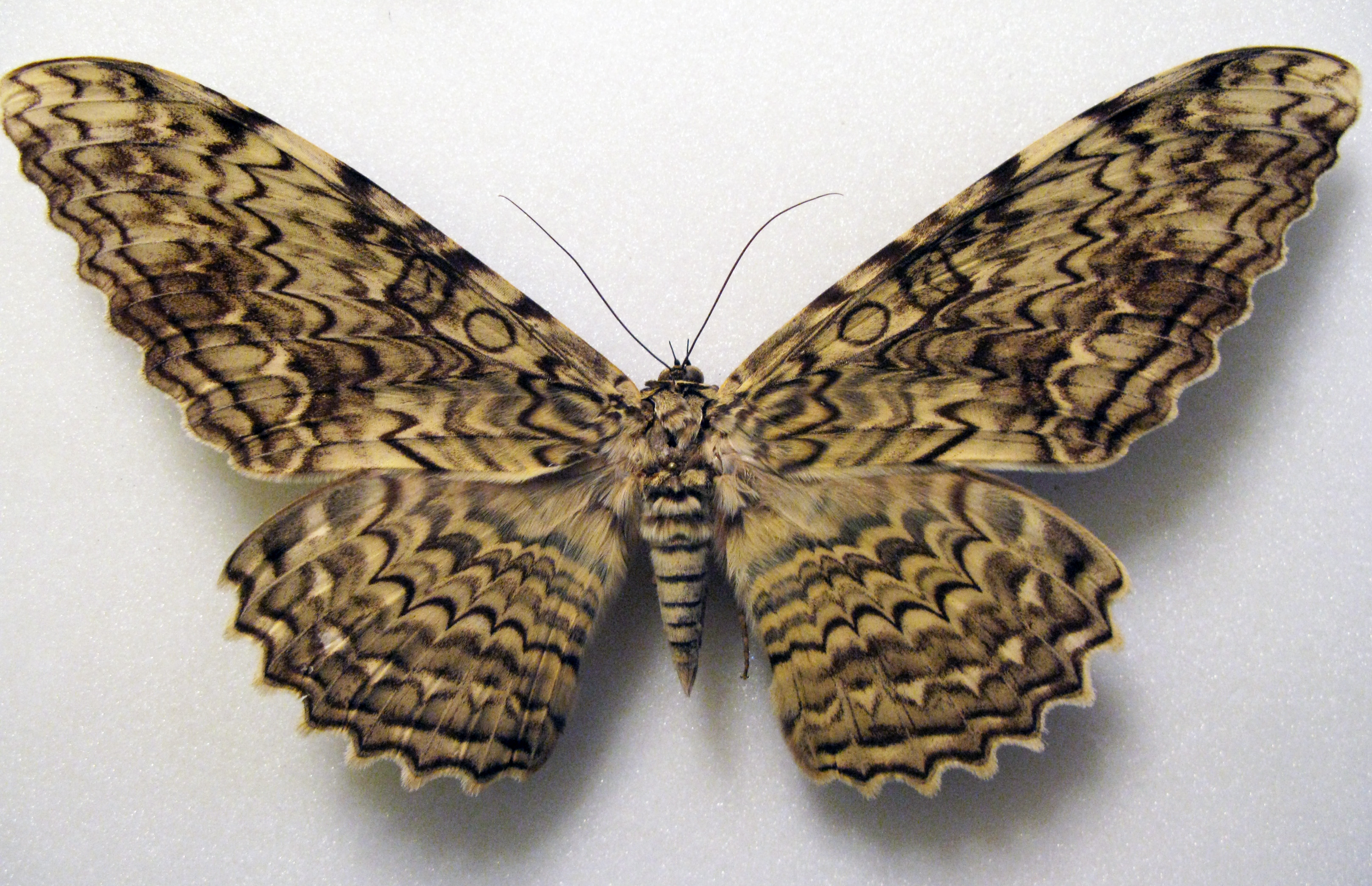 Thysania agrippina